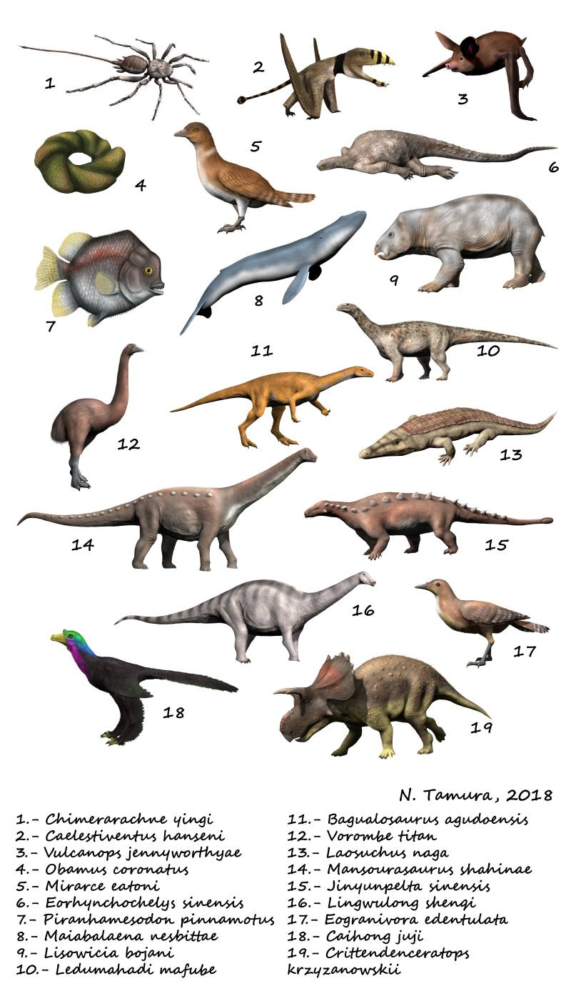 Restoration of Caelestiventus hanseni.